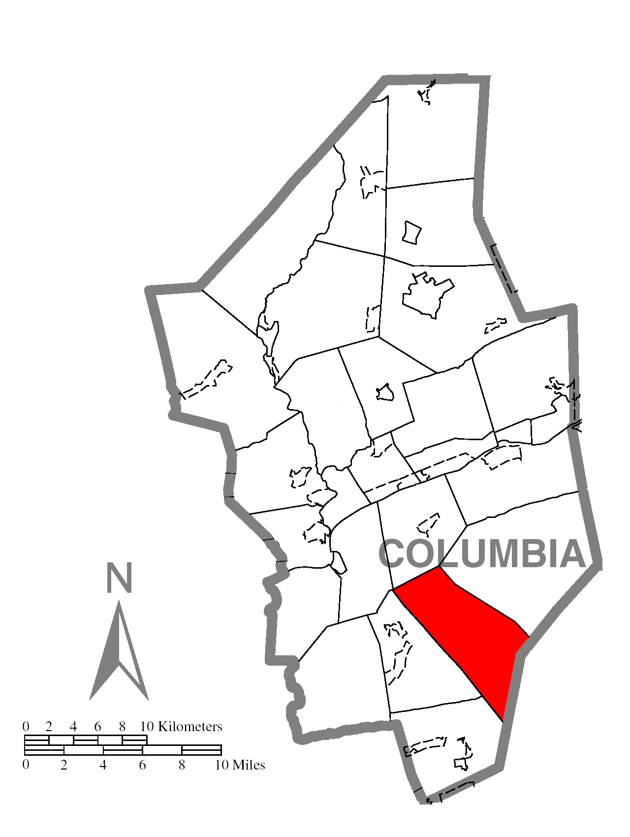 A map of Columbia County showing Roaring Creek Township, Pennsylvania (alternate) highlighted on the map.